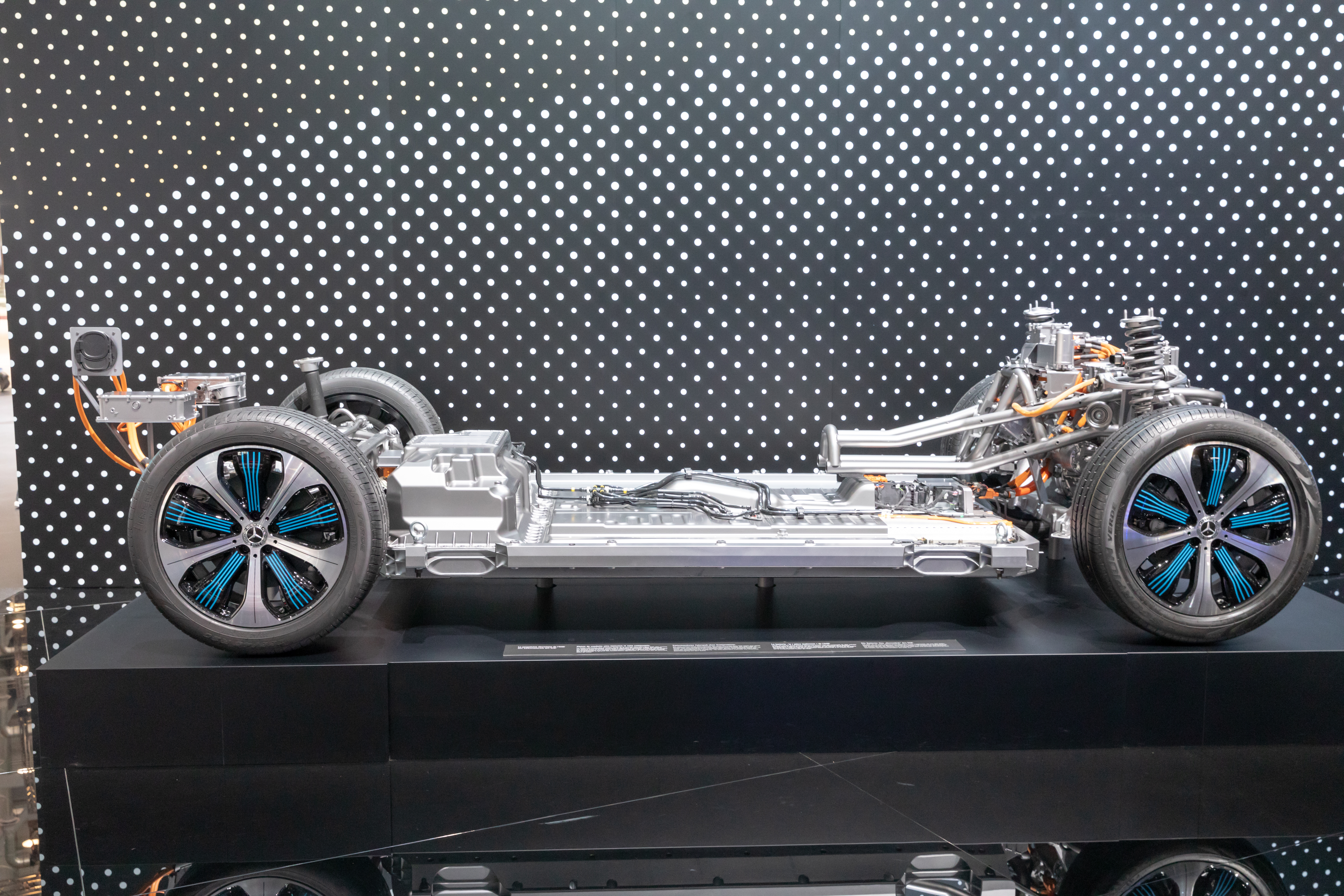 Geneva International Motor Show 2019, Le Grand-Saconnex